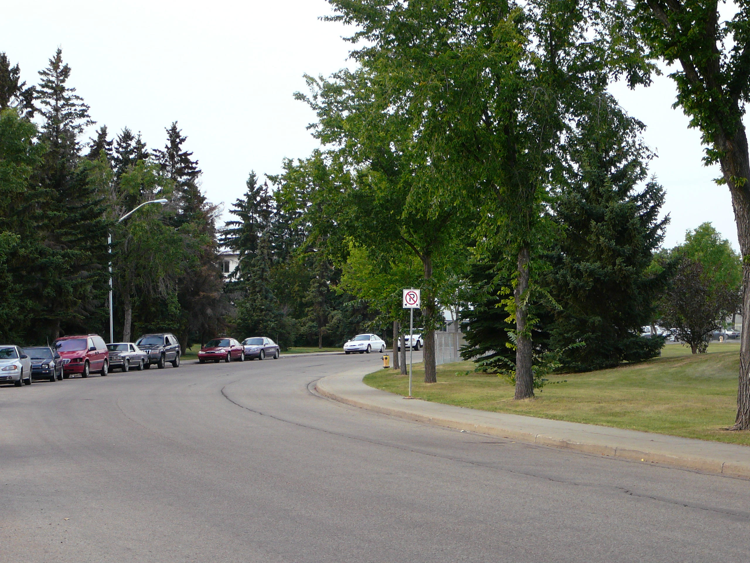 Picture taken in the Edmonton, Canada, neighbourhood of McQueen